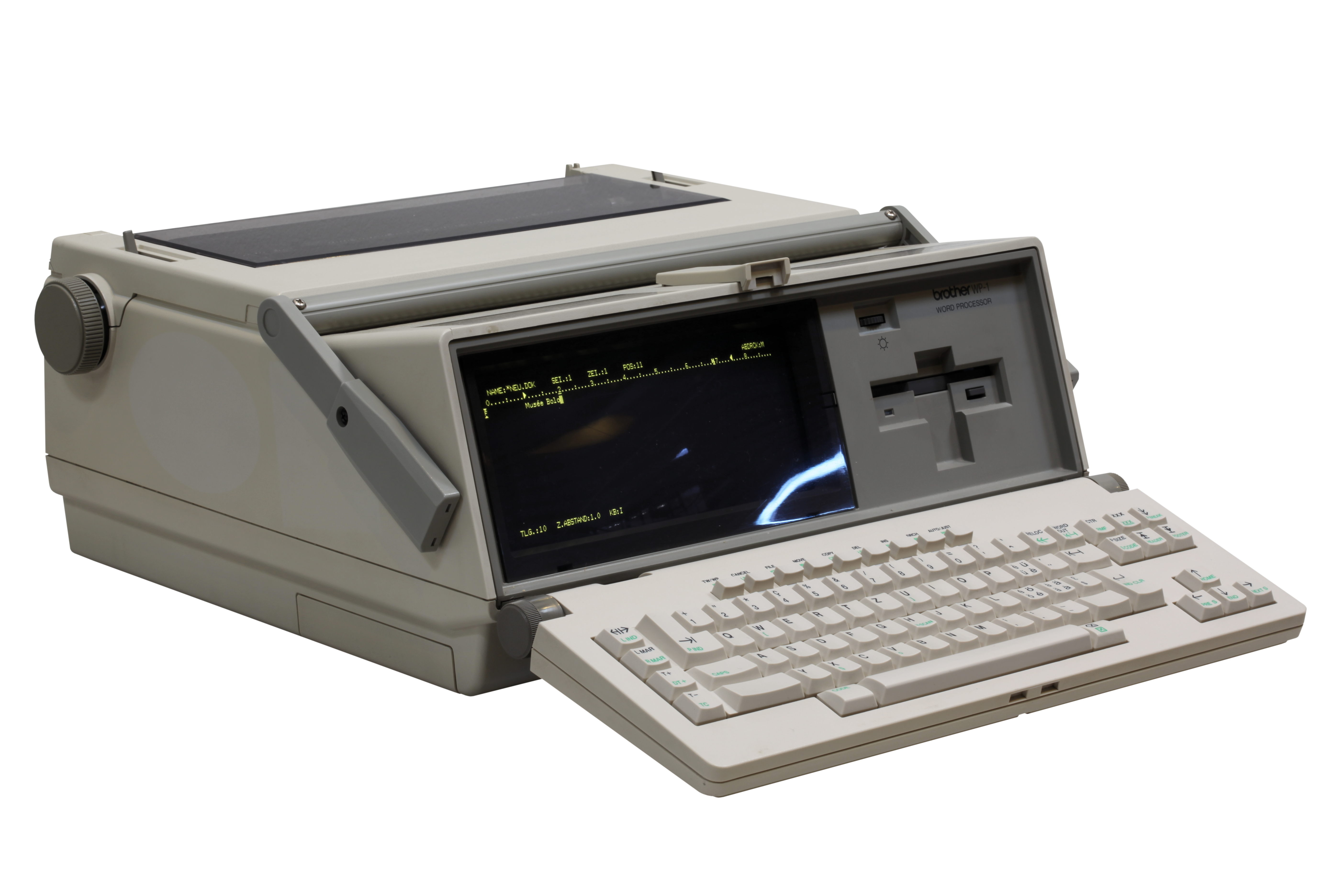 Brother WP1 electronic typewriter. On display at the Musée Bolo, EPFL, Lausanne.